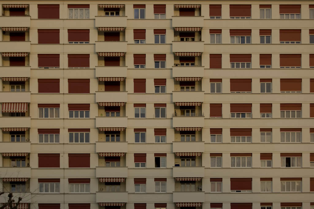 The building is located next to Migros at Florissant in Renens, Vaud, Switzerland